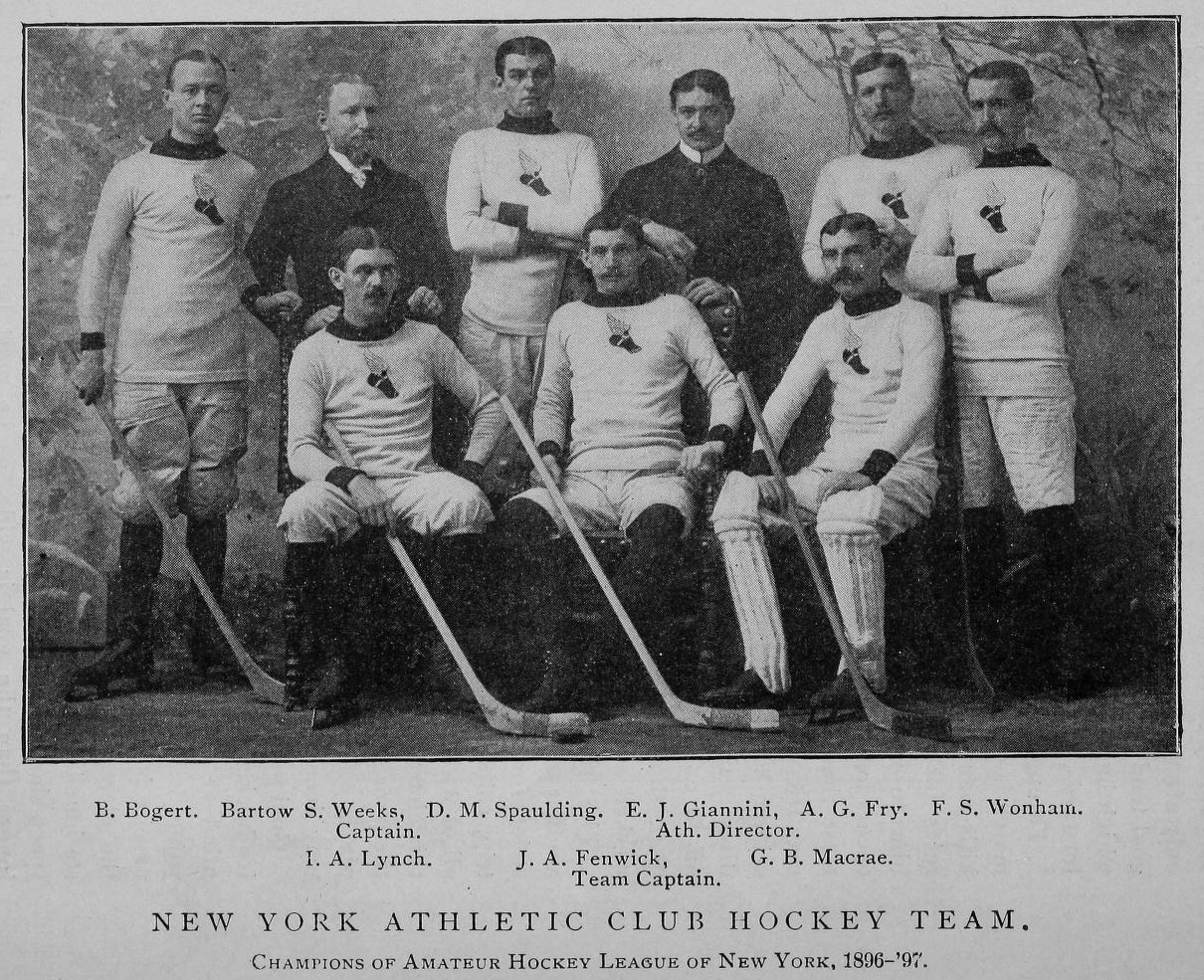 New York Athletic Club hockey team, champions of the American Amateur Hockey League in the inaugural 1896–97 season.